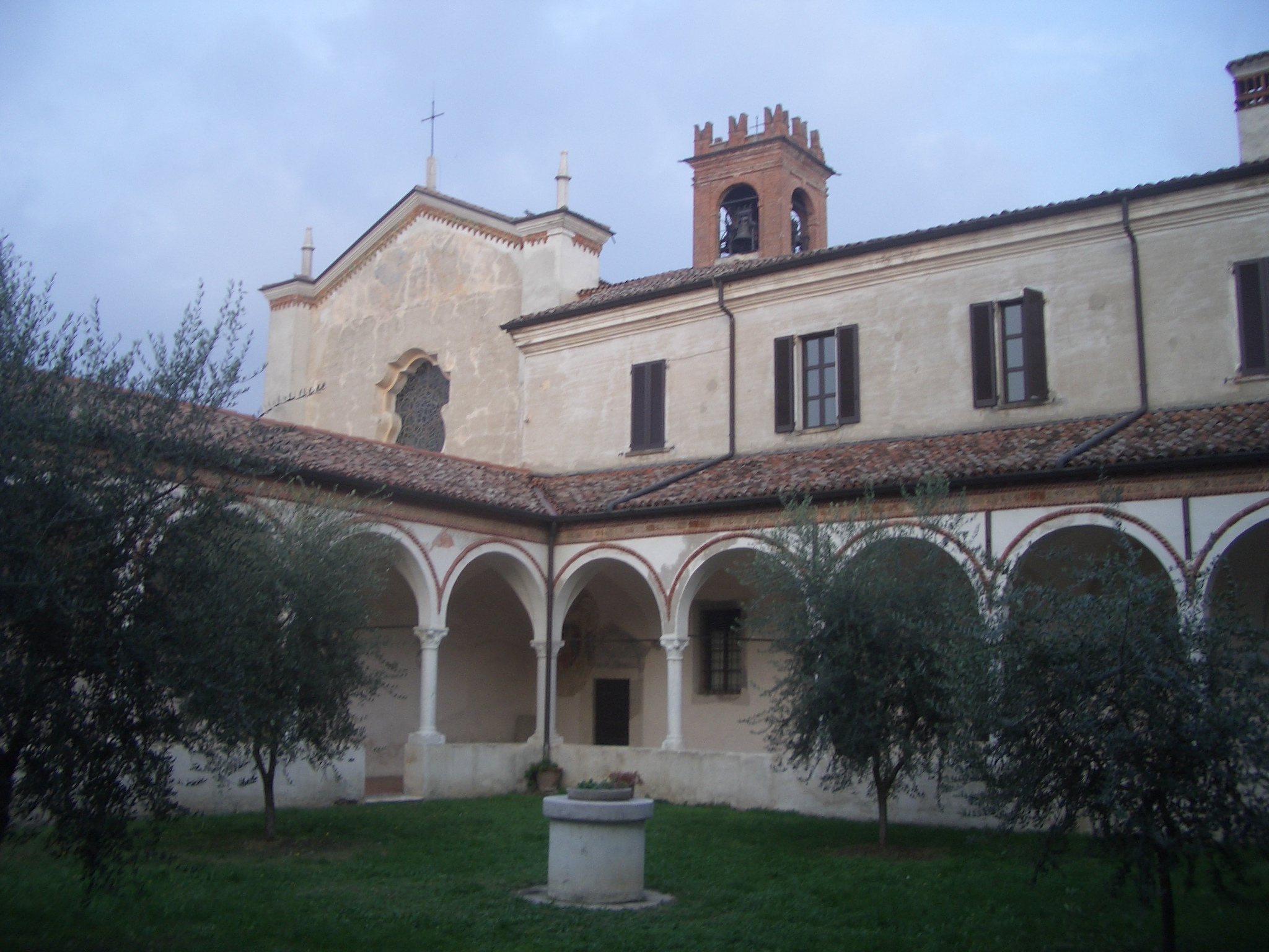 One of the three cloisters of the abbey, called "chiostro piccolo”, XV century